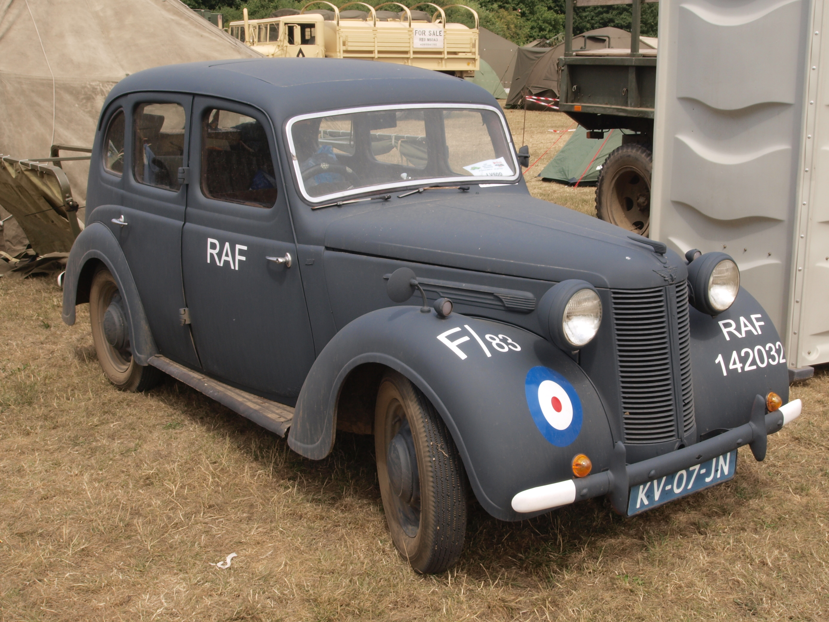 Austin 10 (1944) (owner Remco Algra)